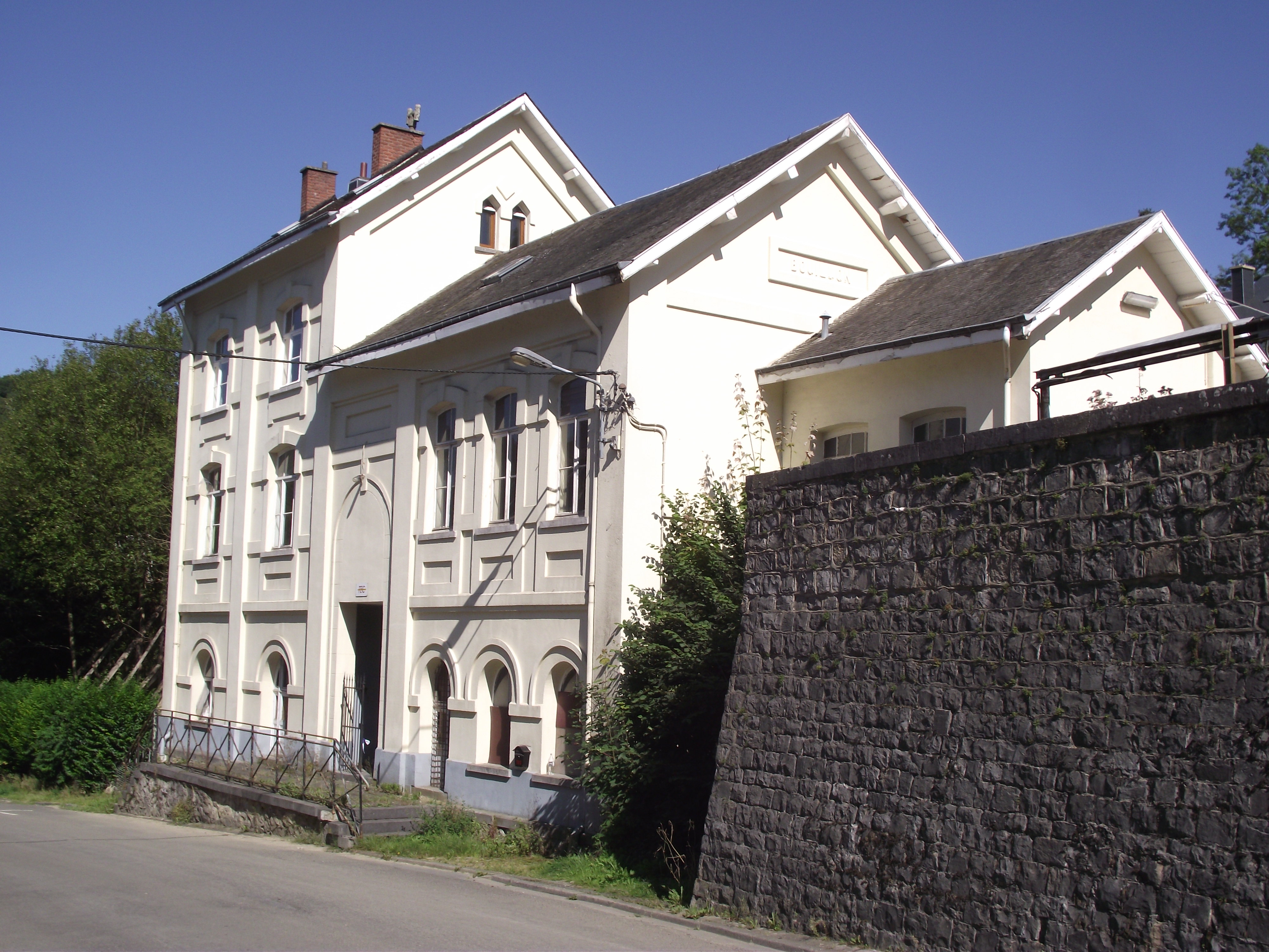 SNCV station of Bouillon stil in use as an office by the TEC